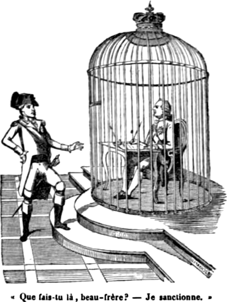 The Free Sanction by Louis the XVIth: “Que fais-tu là, beau-frère ? Je sanctionne.”